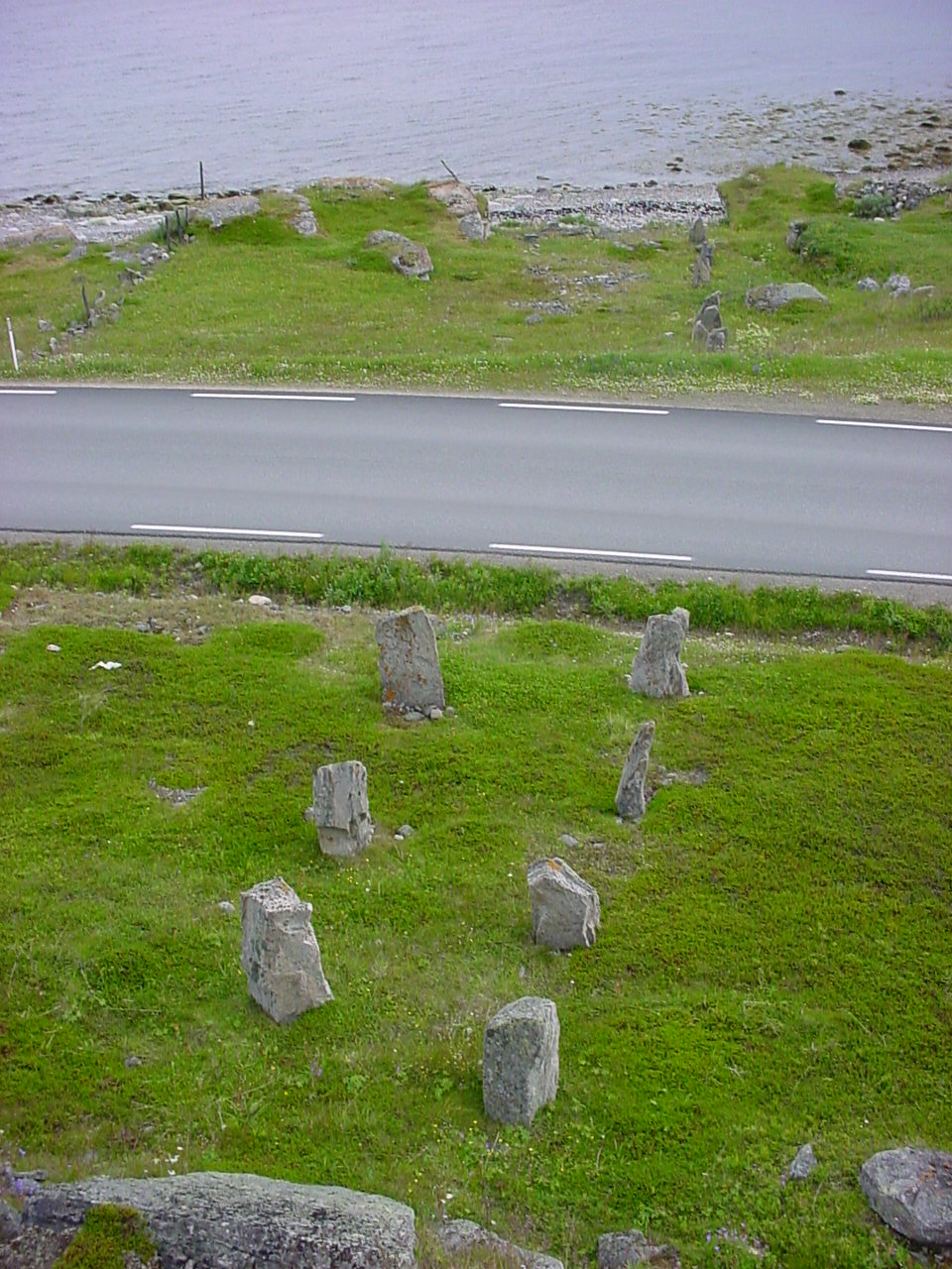 Megaliths crossing the road at Kiby near the city of Vadsø in Finnmark, North Norway